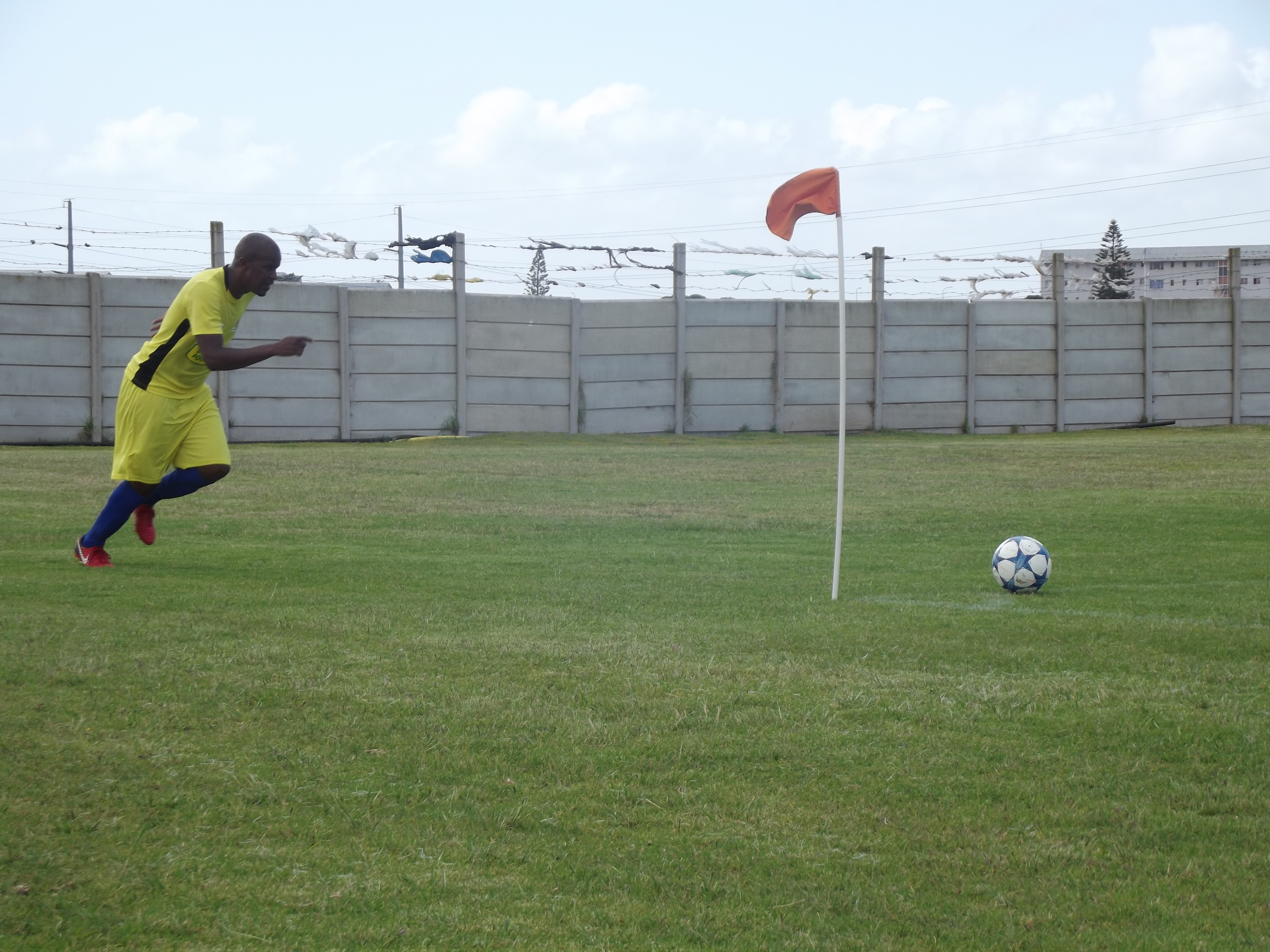 Elrio van Heerden takes a corner for PE Stars FC